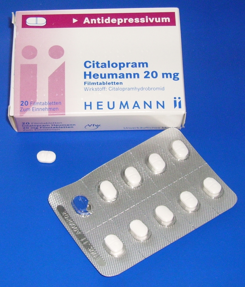 A package of Citalopram film-coated tablets